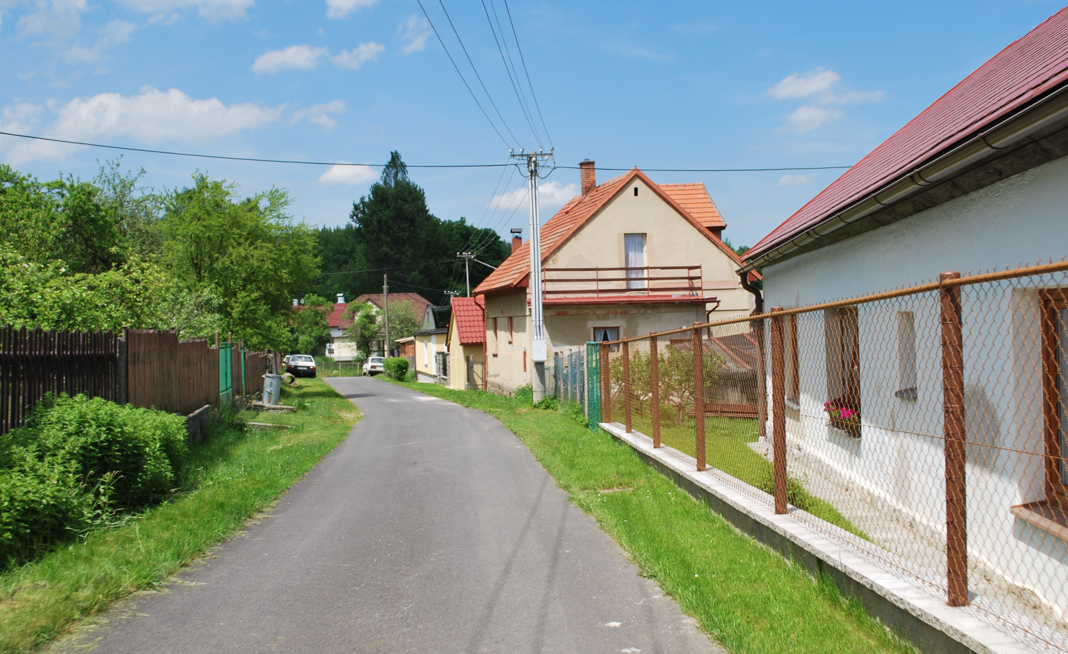 Rohanov village, part of village Vacov in Prachatice District, Czech republic. This photograph was taken within the scope of the 'Czech Municipalities Photographs' grant.